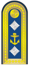 Rang insignia of the GDR Volksmarine until 1990, here shoulder strap of “Senoijr-meister” (OR-7) – nautical career.